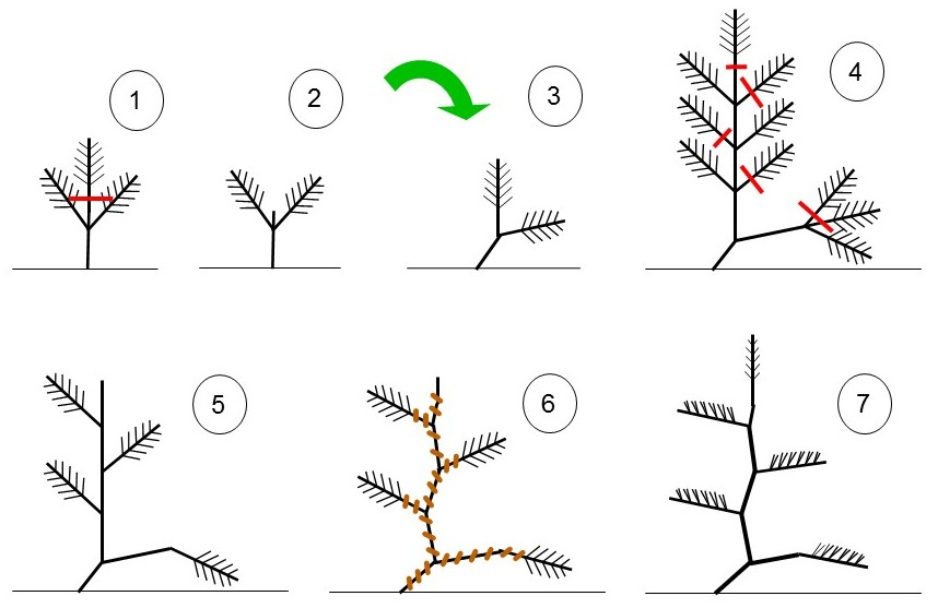 Pruning and wiring a seedling of pine tree to obtain a Moyogi style bonsai (informal upright). Cut of the central bud Result Transplanting with leaning 3 years later : alternative cut of the branches Result ...and wiring for a more accute shape of the bonsaï 2 years later : the needles of the pine grew smaller and upright because they have more light.